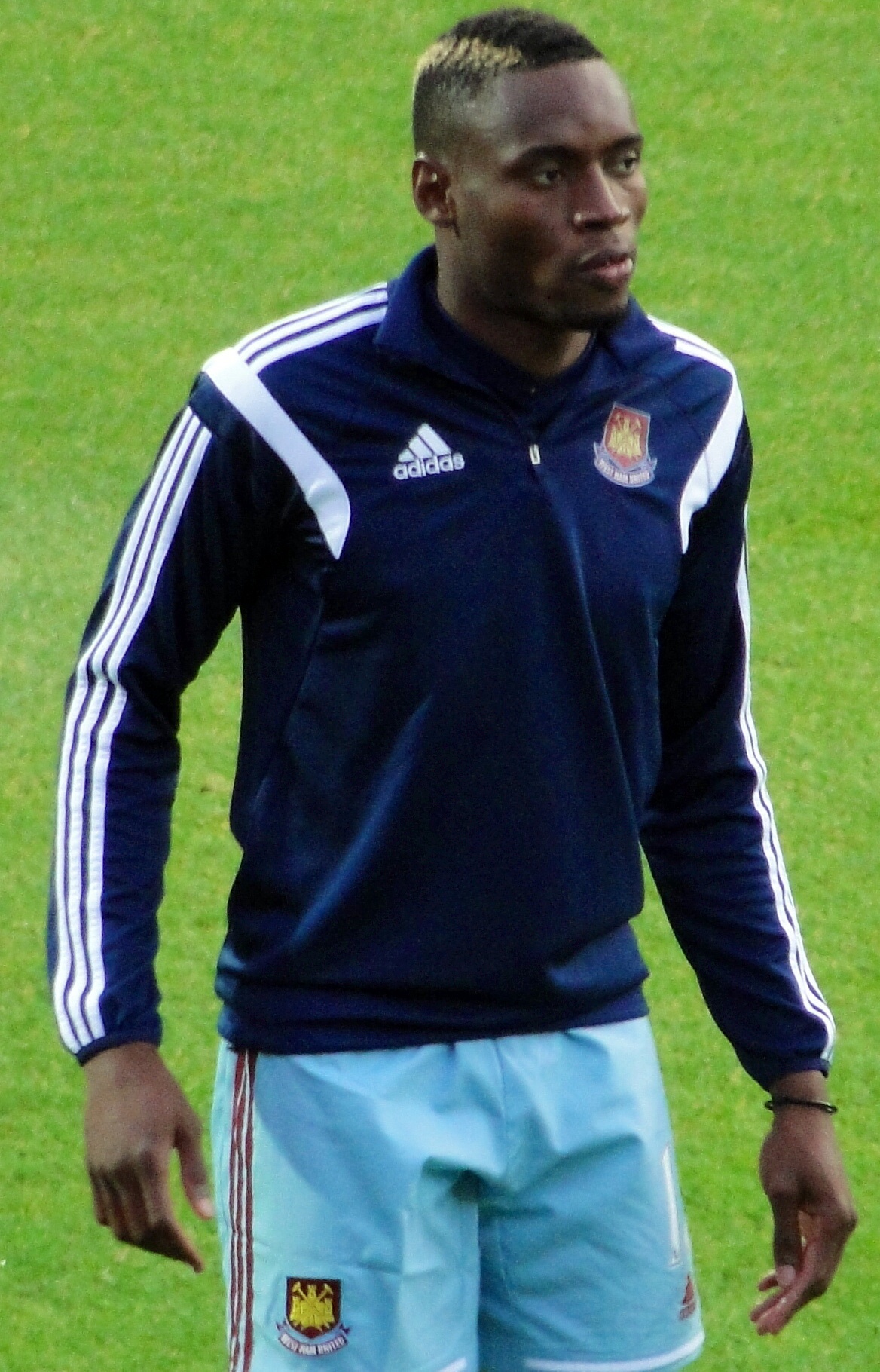 West Ham United's Diafra Sakho warming up at the Boleyn Ground before their League Cup defeat by Sheffield United, August 2014